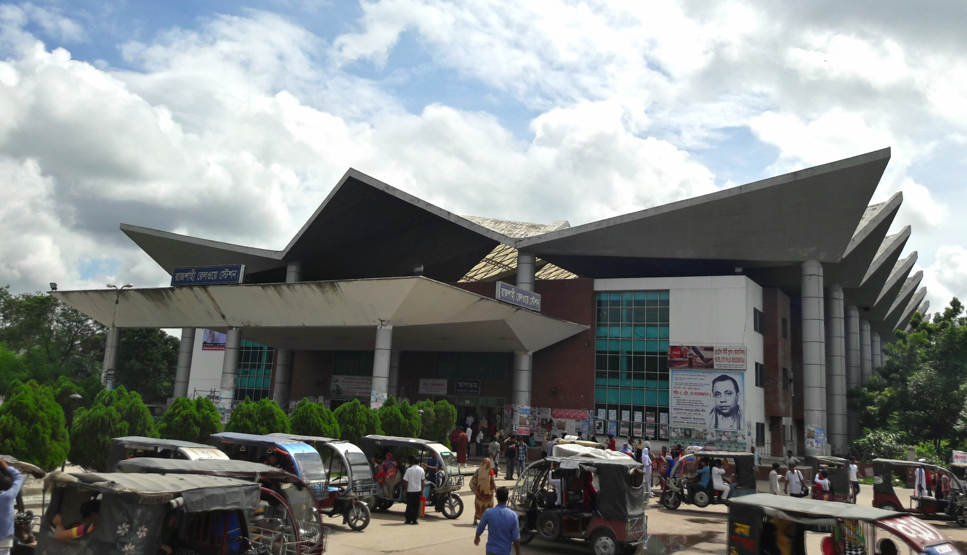 Rajshahi Railway Station is one of the modern structural building in bangladesh. It has total 5 platform. 3 storied building consists main platform, mosque and a residential hotel.